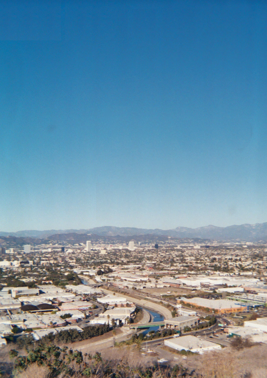 View of the Los Angeles Basin with Ballona Creek's eastern end in the foreground. Photograph created December 2006 by jengod.